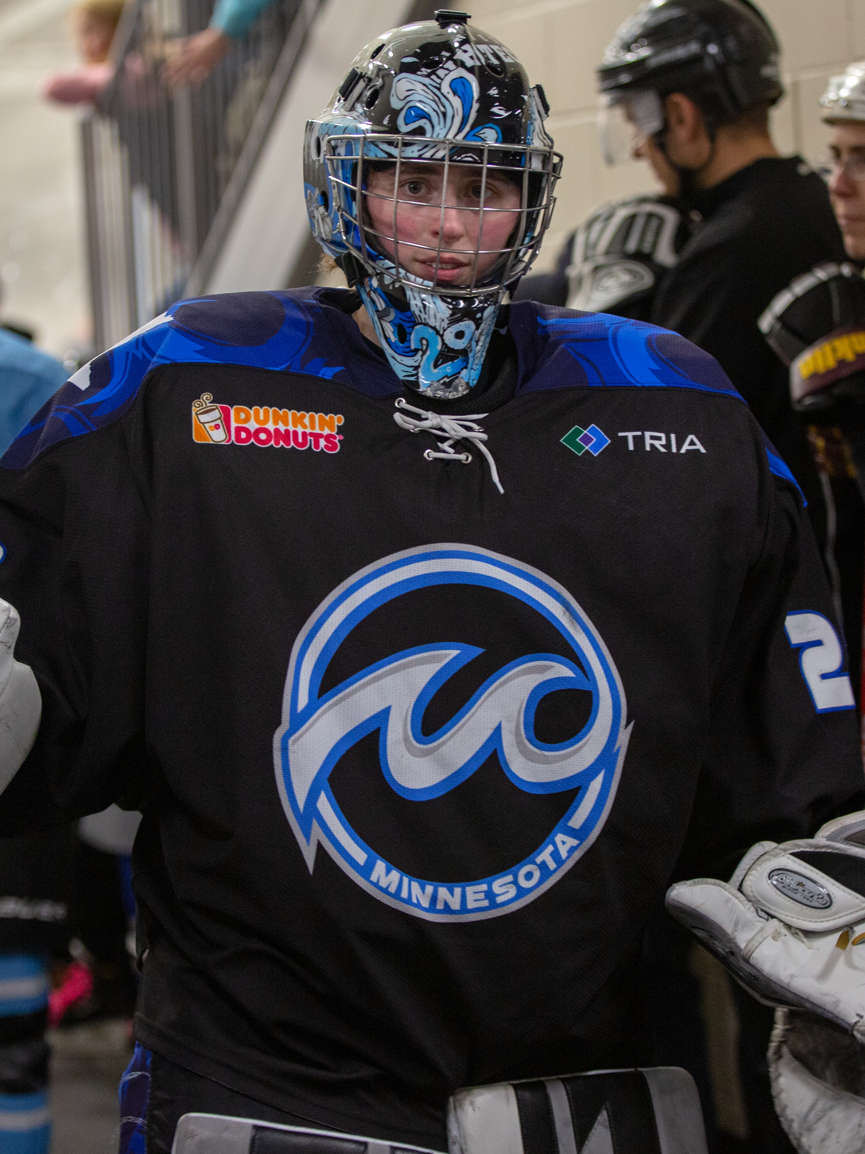 Minnesota Whitecaps goalie Amanda Leveille (29)